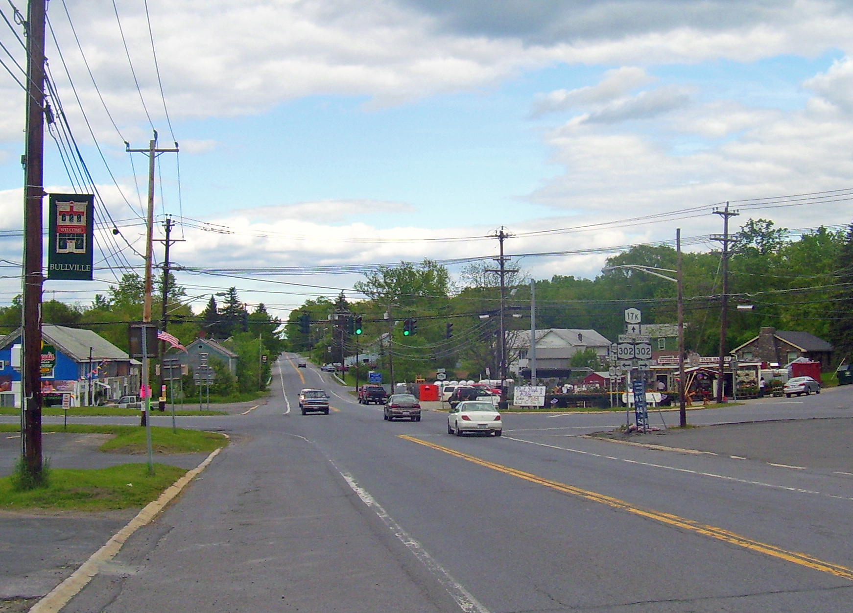 Looking east along NY 17K at junction with NY 302 into center of hamlet of Bullville, NY, USA